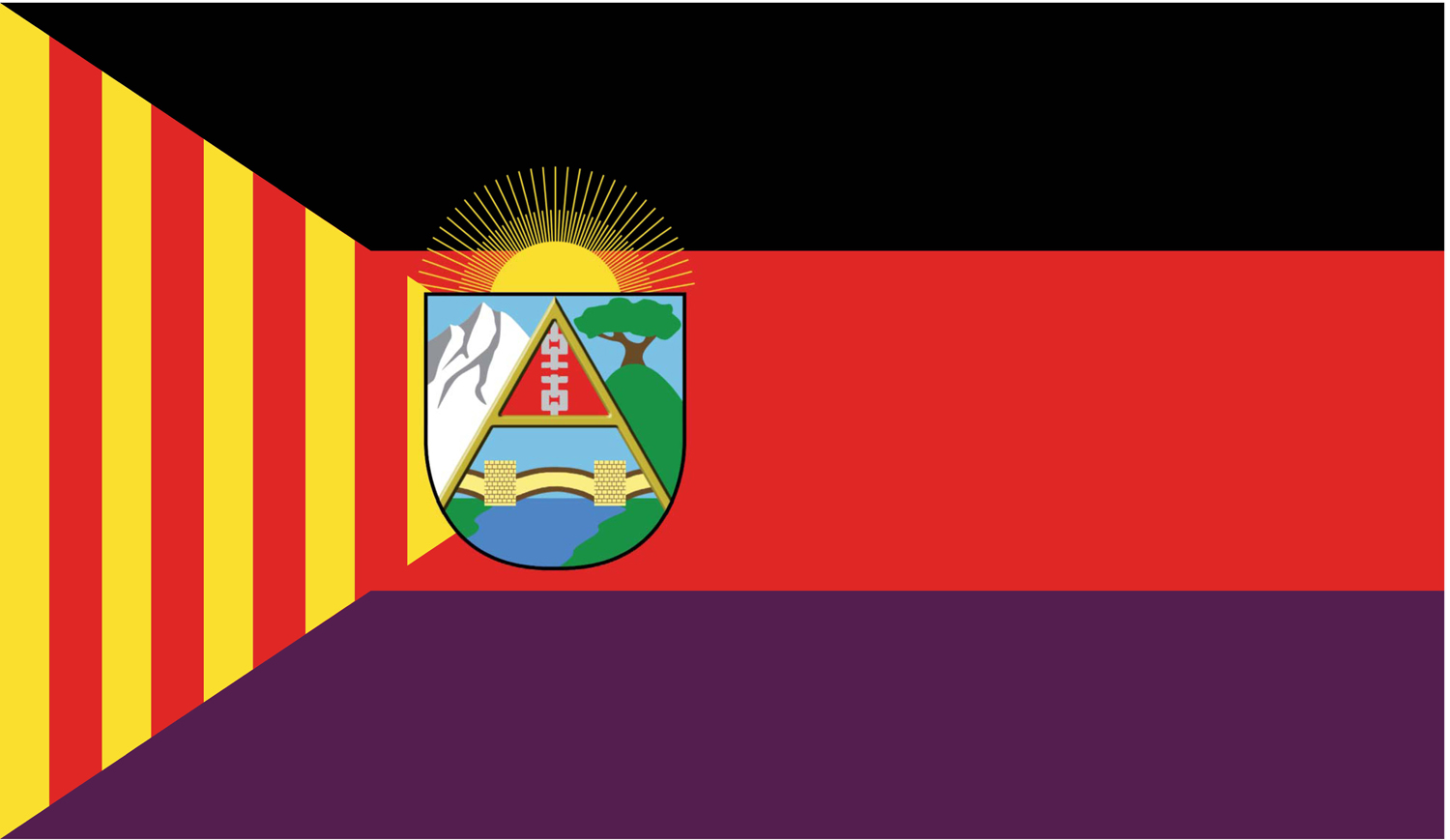 Aragón Council Flag